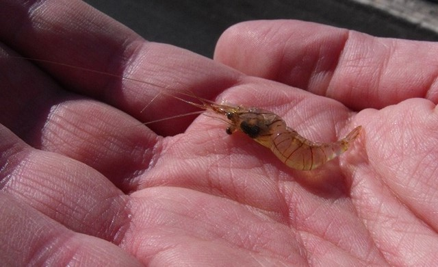 Palaemon adspersus collected in Tuscany (central Italy) in a brackish habitat. Photo by Massimiliano Marcelli.